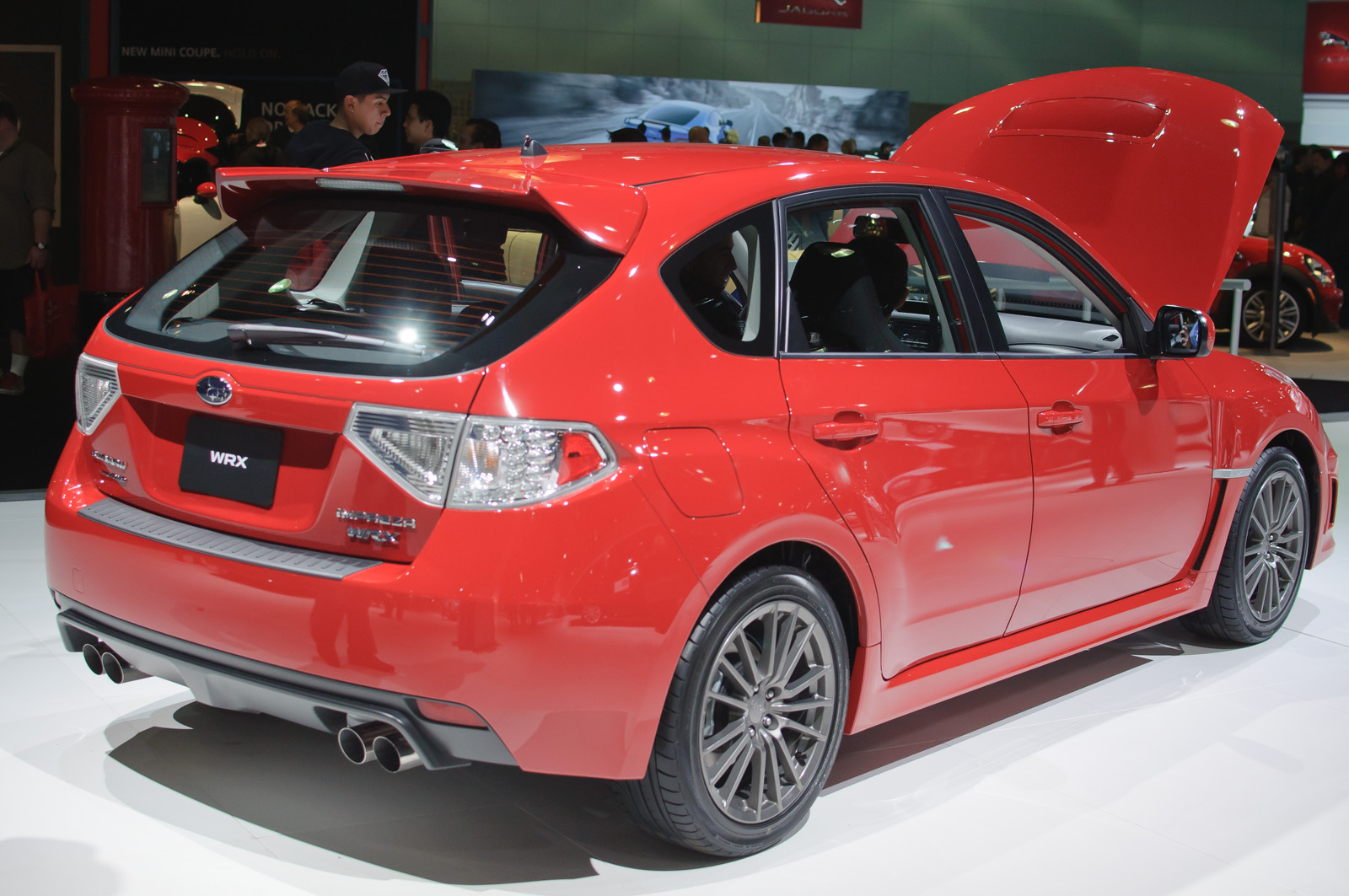 The high-performance, acclaimed version of the Impreza economy car. For 2012, while standard Imprezas receive a new body design, the WRX stays on the old body style. This example, including options, is priced at $27,128, much more affordable than the competing Mitsubishi Lancer Evolution X, and is probably more reliable too. However, this WRX, as a high-performance model, does share the Evolution's poor fuel economy, more akin to that of V8 luxury cars. Seen at Los Angeles International Auto Show, 2011.